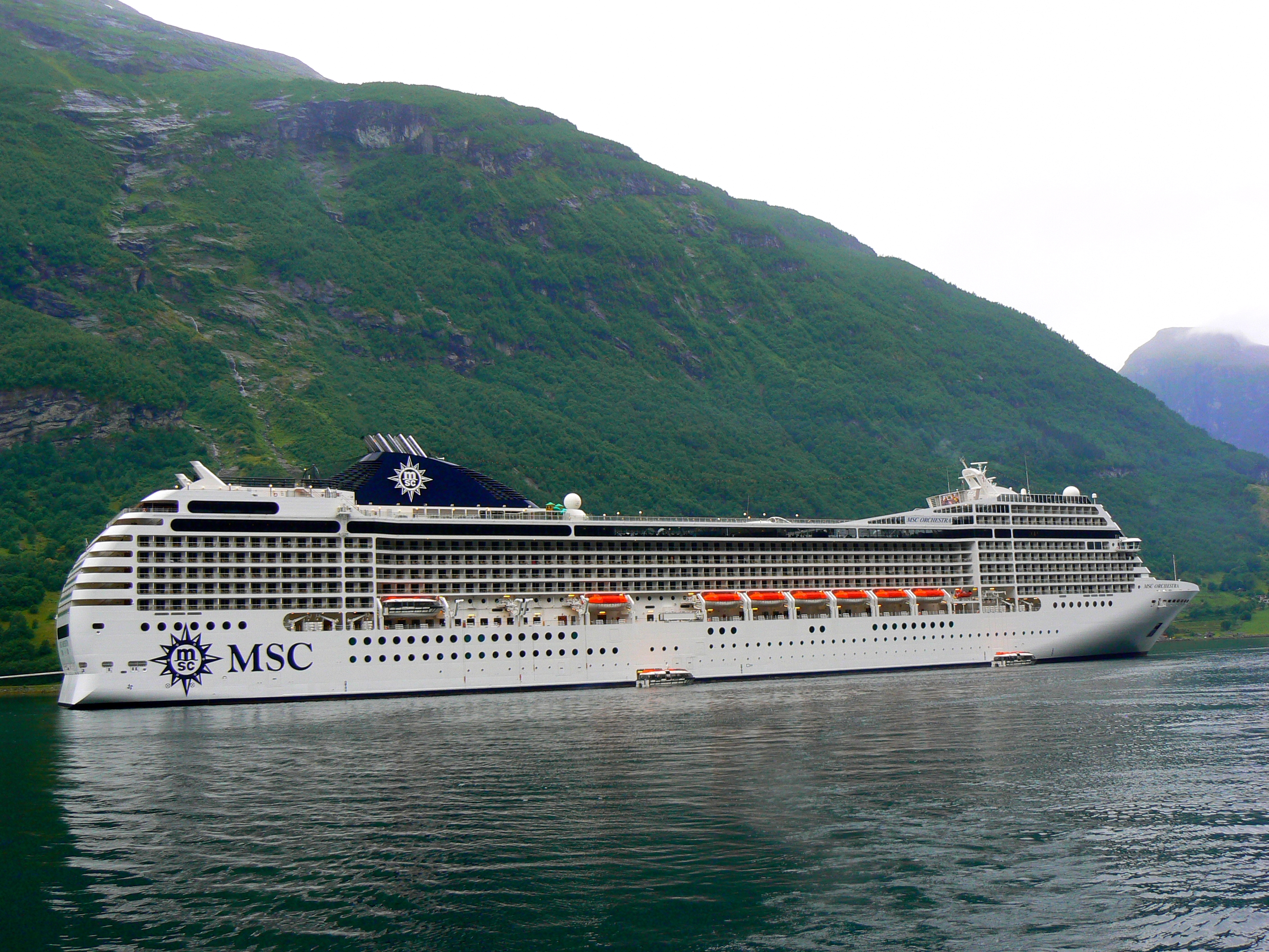 The MSC Orchestra, Summer 2010